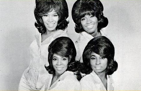 Photo of the music group The Fascinations.